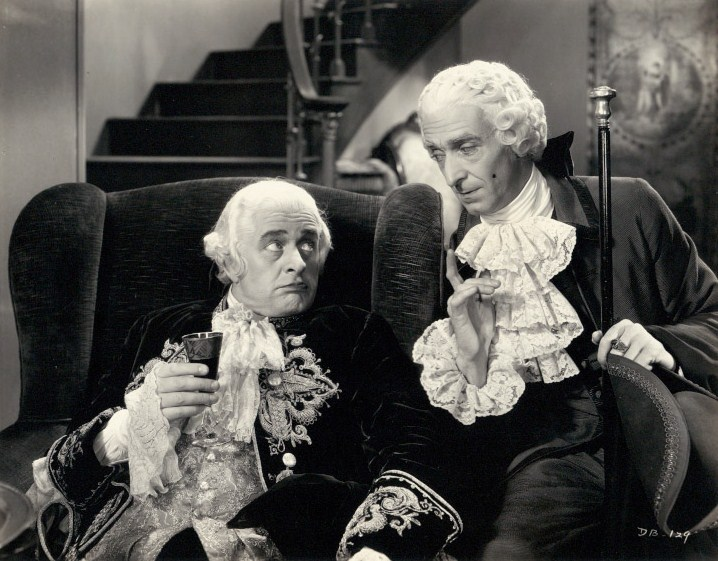 Reginald Owen (left) & Osgood Perkins in Madame Du Barry - publicity still (cropped)